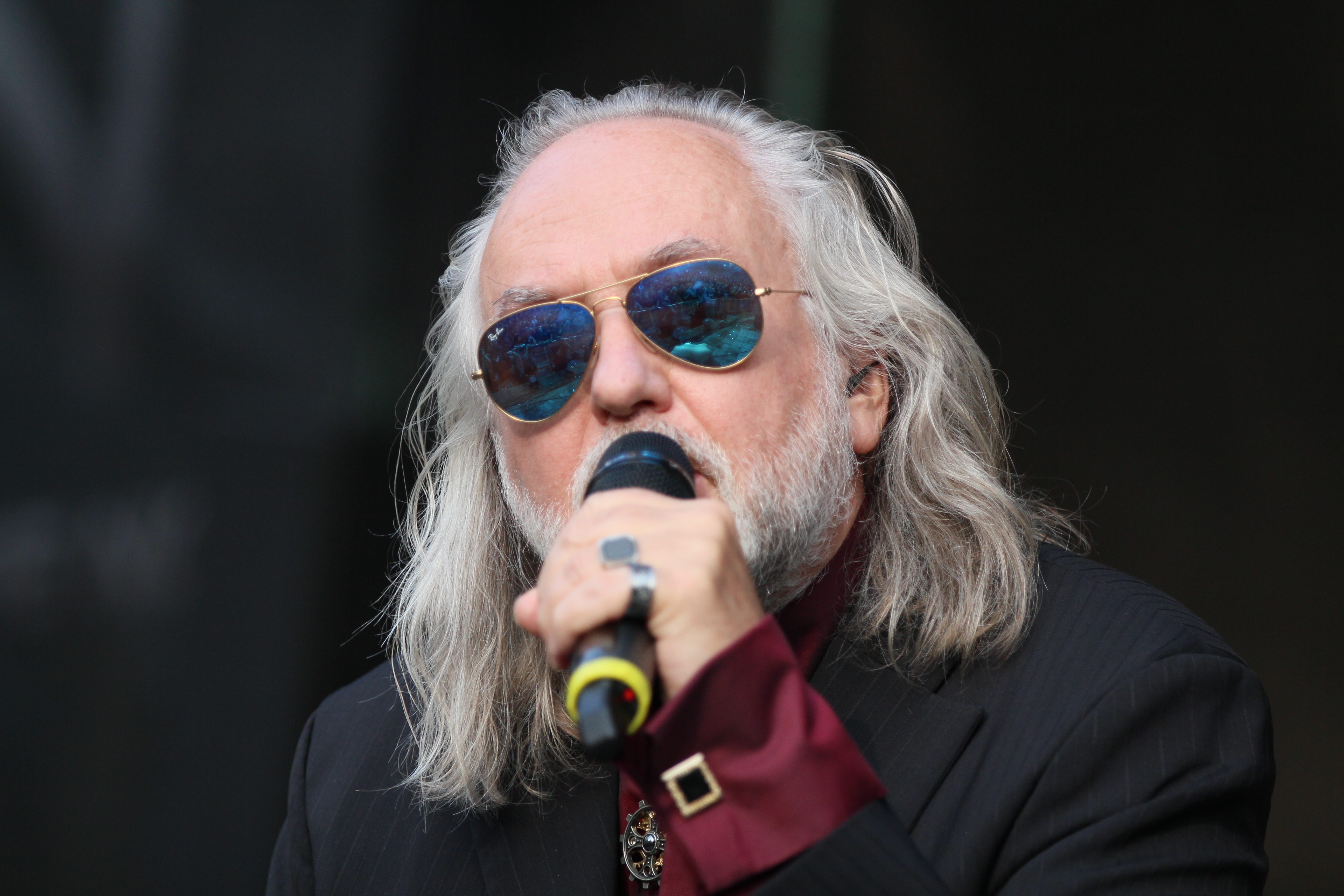 The German musician Joachim Witt at the Nocturnal Culture Night 9 2014 in Deutzen/Germany